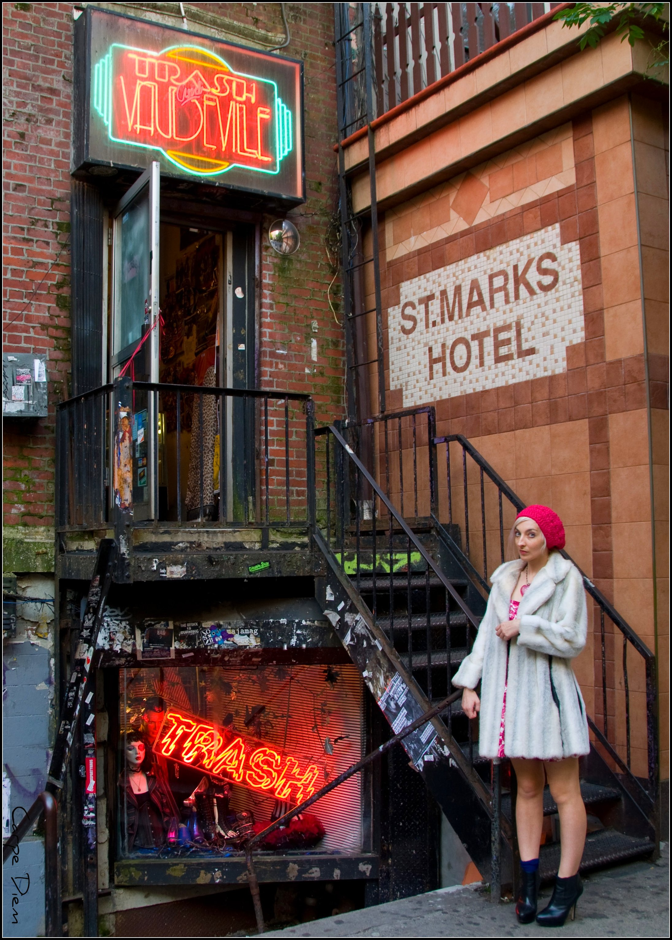 Below Trash and Vaudeville and along the wall of St. Mark's Hotel, St. Marks Place, East Village, New York City.